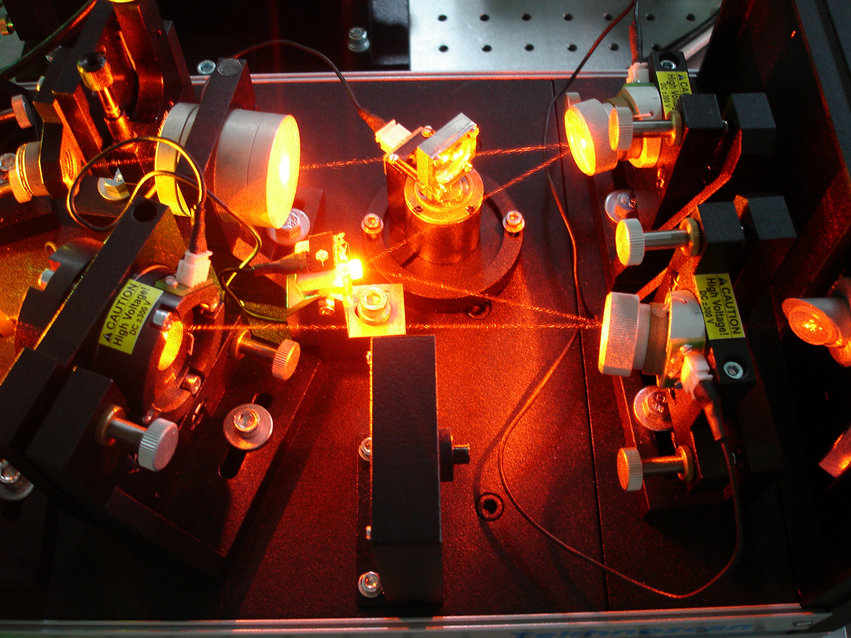 CW single-frequency ring Dye laser